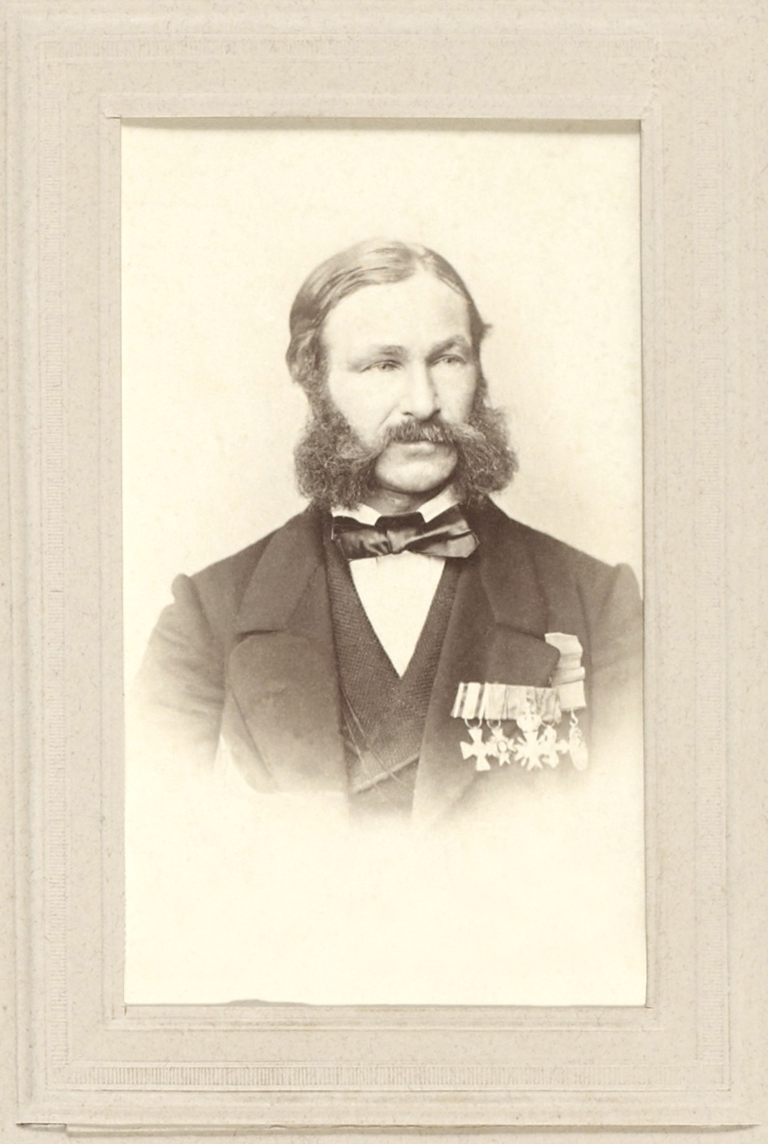 Heinrich Barth (1821 - 1865) prussian explorer of western Africa, linguist, geographer, ethnologist et anthropologist.